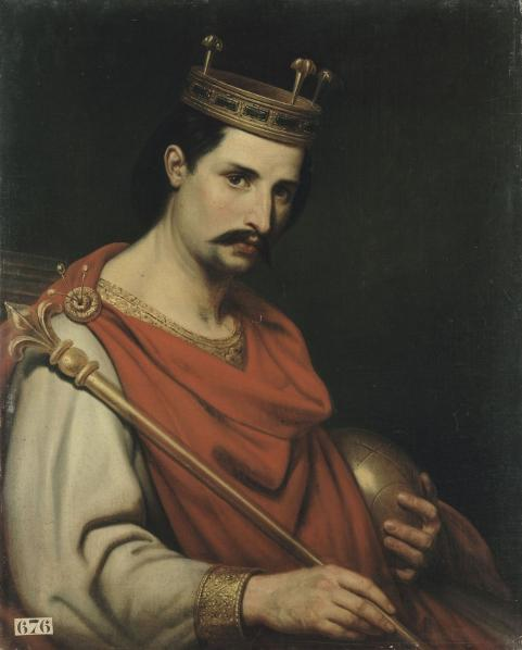 Portraits of Kings of France is a serie of portraits commissioned between 1837 and 1838 by Louis Philippe I and painted by various artists for the Musée historique de Versailles.